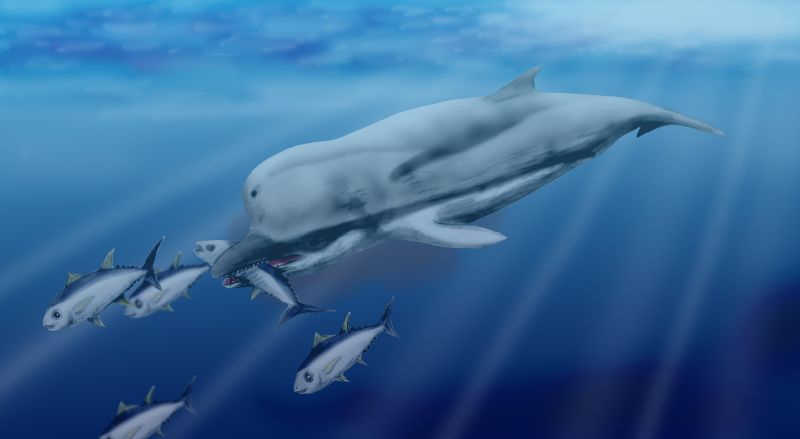 Zygophyseter varolai, a sperm whale from the Late Miocene of italy. Digital.